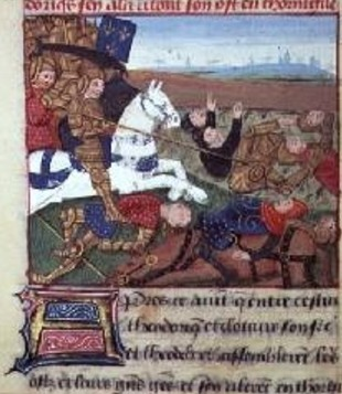 Ms 869/522 fol.28v Theodoric (487-534) in Thuringen (vellum).